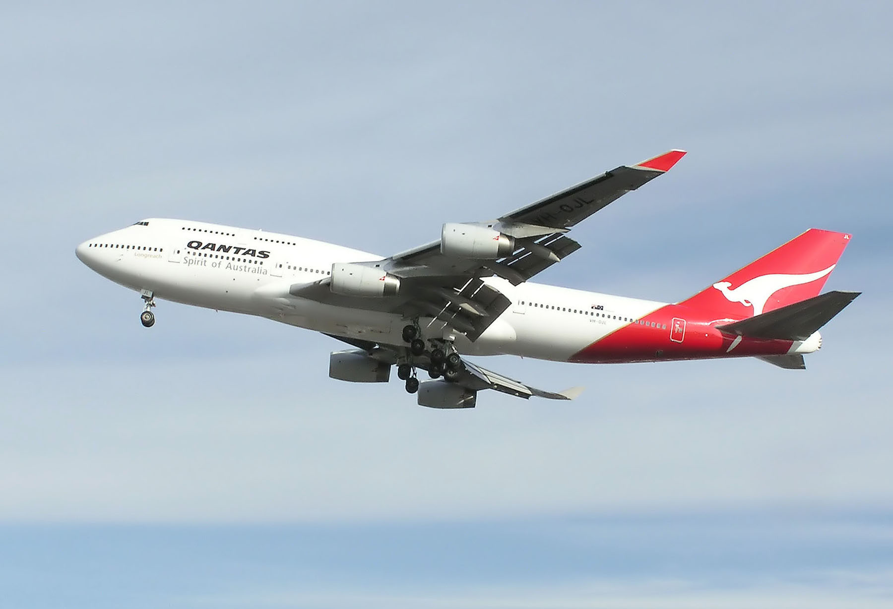 Qantas Boeing 747-400 (VH-OJL) landing at London Heathrow Airport, England. Photographed by Adrian Pingstone in March 2005 and released to the public domain.